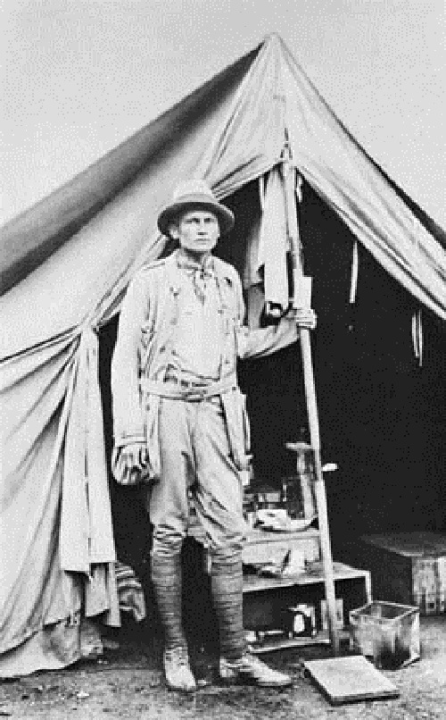 Photo of Hiram Bingham III at his tent door near Machu Picchu in 1912.